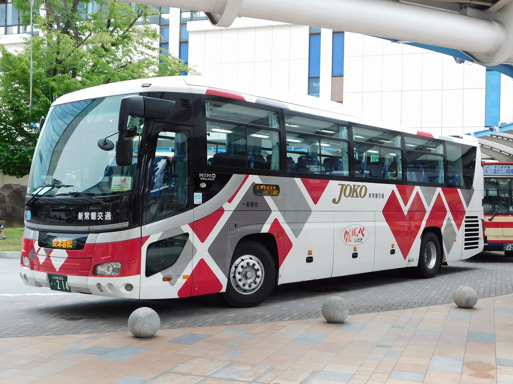 New Joban Kotsu Hino S'elega highwaybus "Iwaki-Koriyama-Aizuwakamatsu"